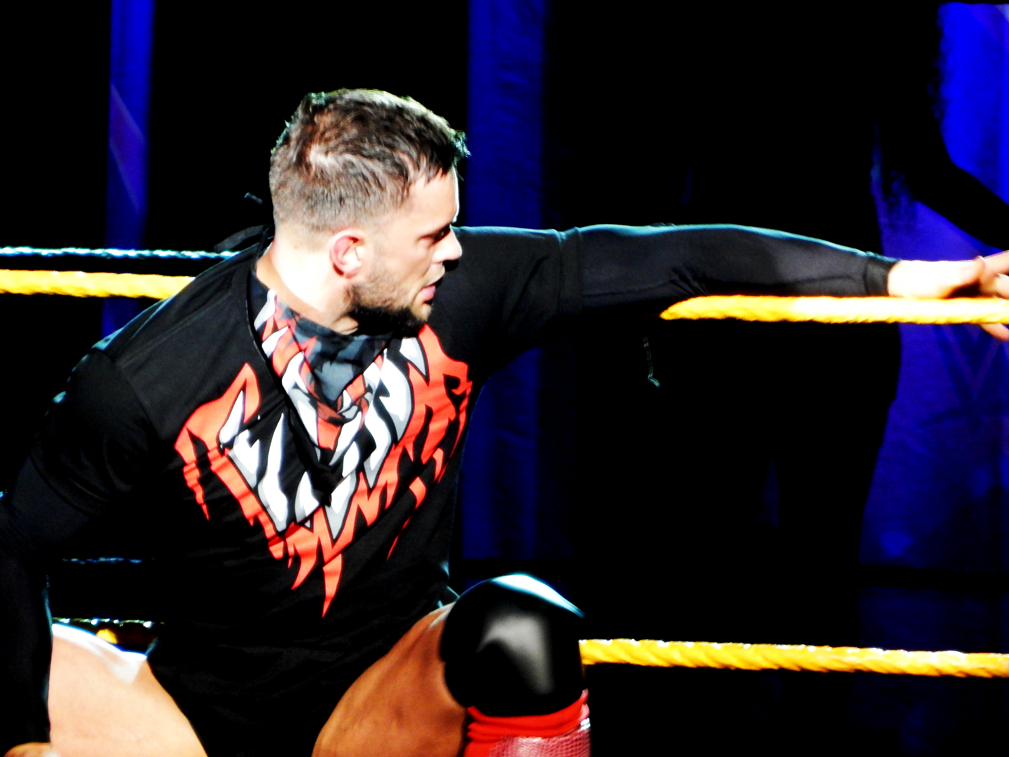 Finn Bálor at a WWE NXT event in Philadephia on May 14, 2015.